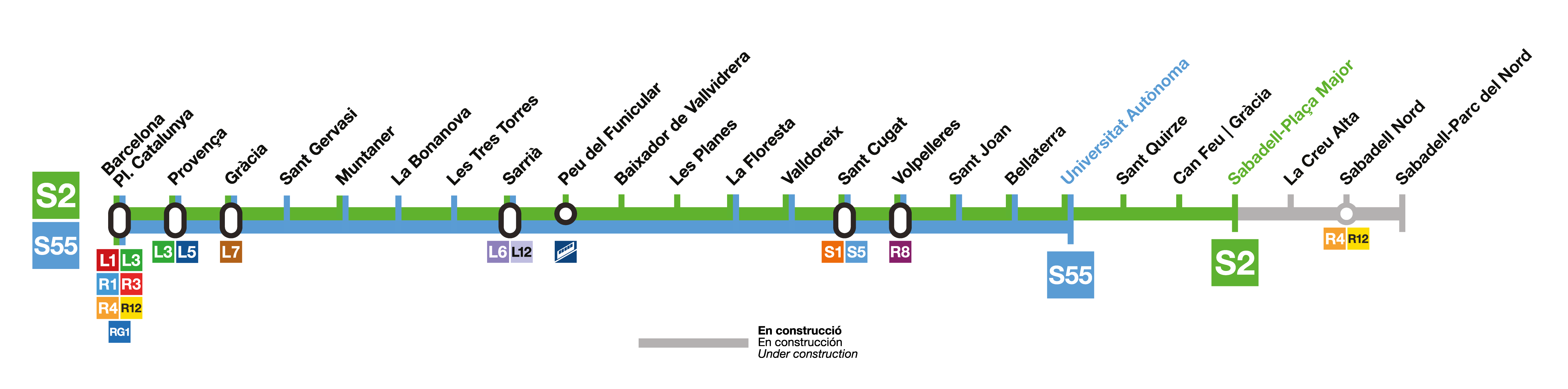 With Paint Shop Pro version 5.